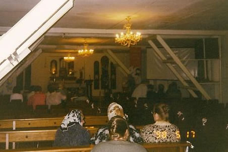 Cathedral of the Immaculate Conception of the Holy Virgin Mary, Moscow. Before renovation.